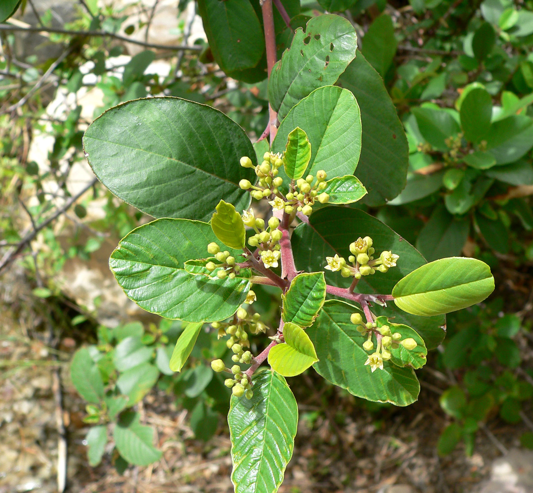 Rhamnus betulifolia var. obovata in Pine Creek Canyon, Red Rock Canyon, Spring Mountains, southern Nevada (NNPS field trip)